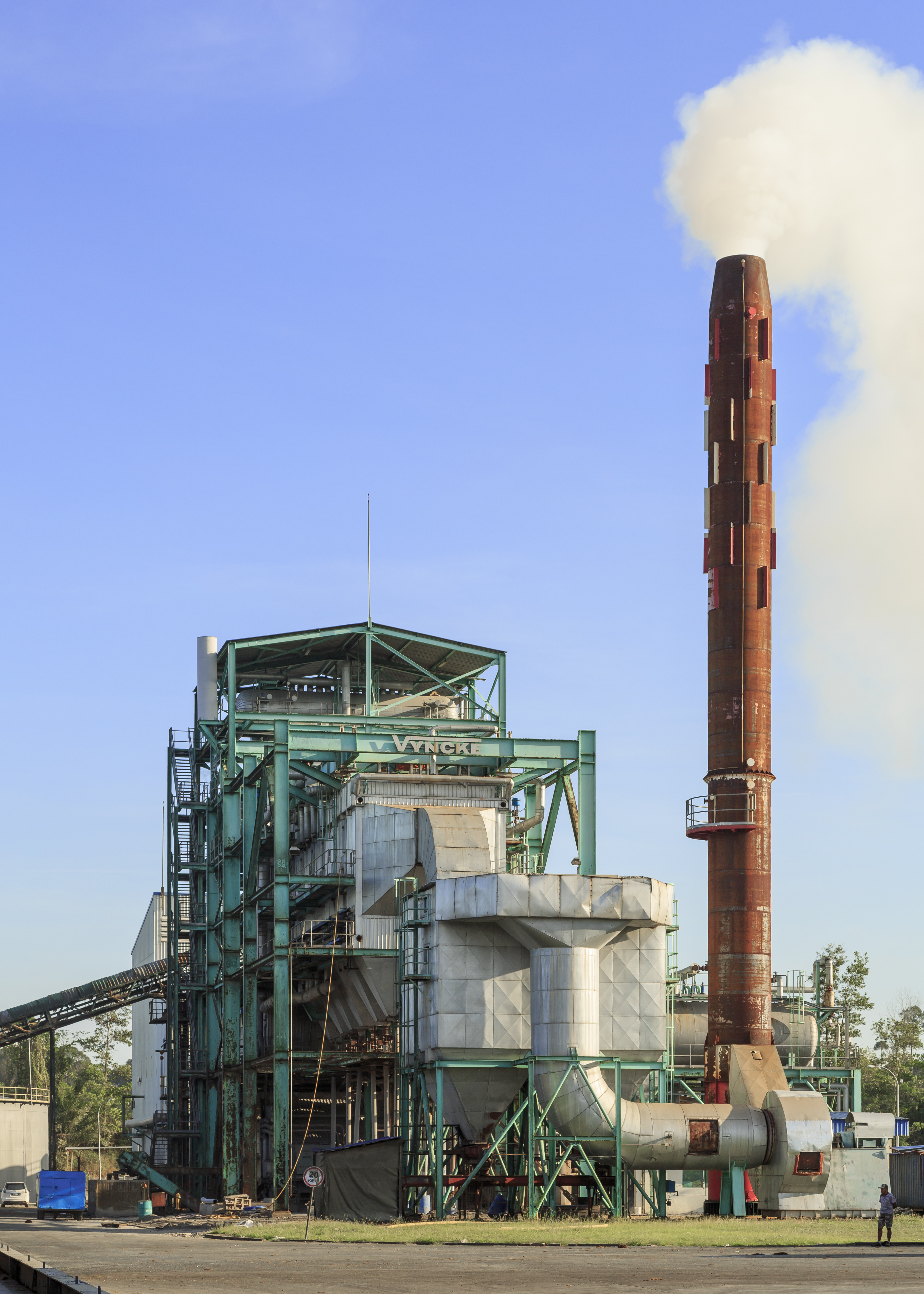 Sandakan, Sabah: Seguntor Bioenergy Biomass Power Plant